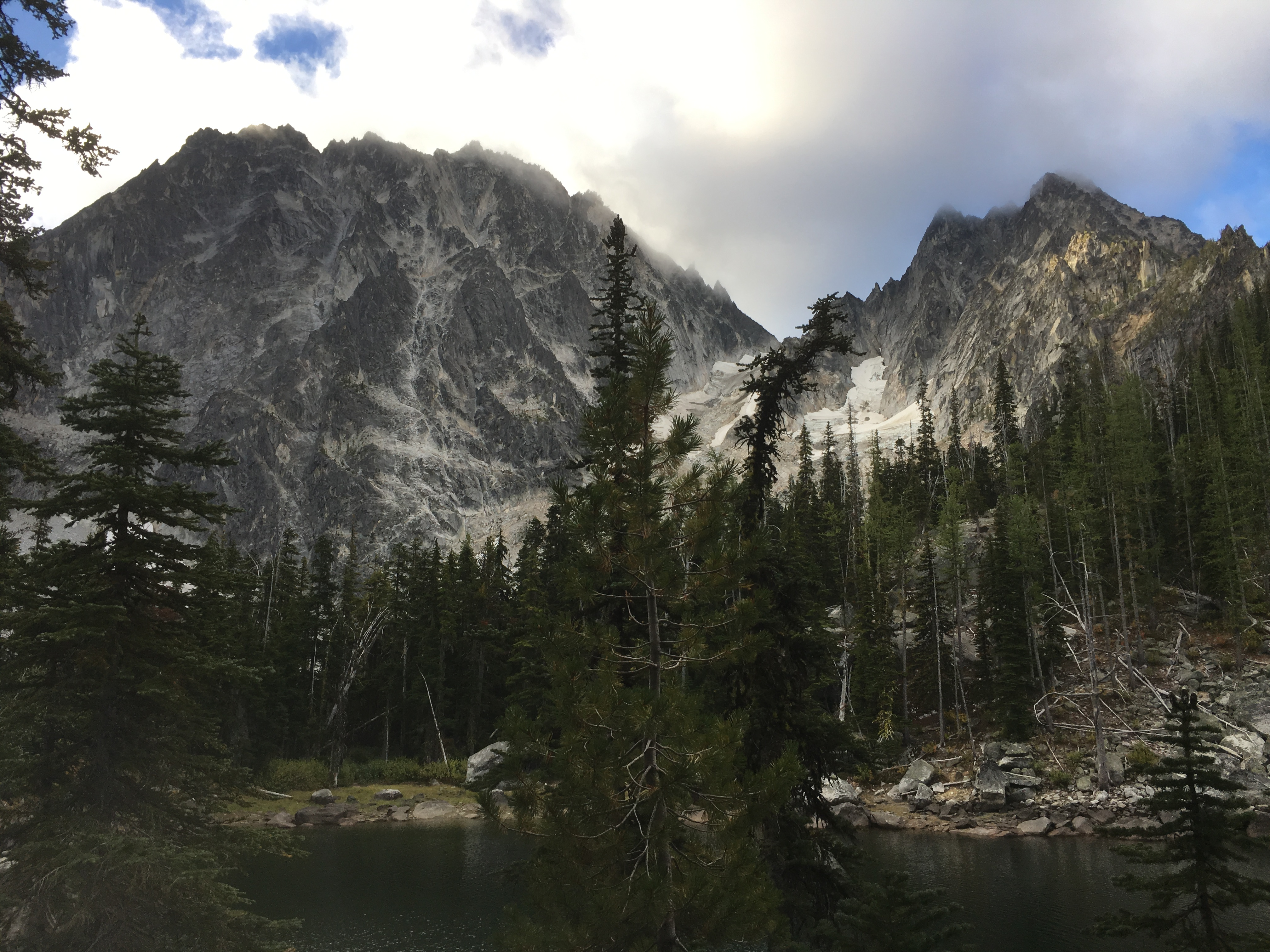 From left, Dragontail Peak, Colchuck Glacier, and Colchuck Peak, in the Stuart Range of Washington, United States, viewed from the north, in September, 2018.